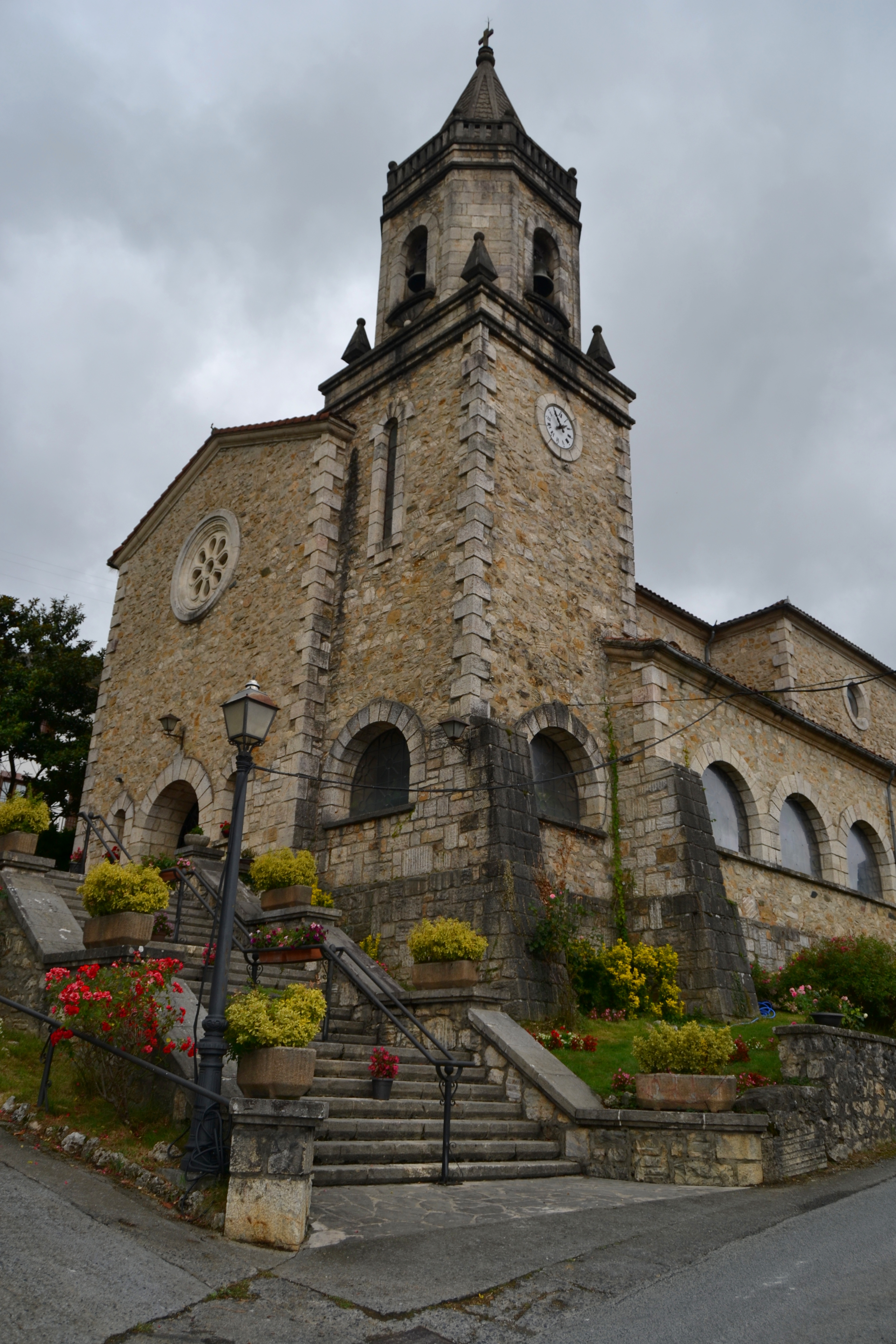 Saint Peter's church, Almandoz, Baztan. Navarre, Basque Country